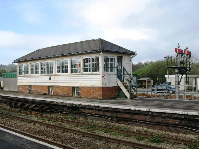 The signal box at Par railway station, Cornwall, United Kingdom. It was originally built by the Great Western Railway and controls trains on the Cornish Main Line between Truro and Liskeard (in front of the box) and the Atlantic Coast Line as far as St Blazey (behind the box).